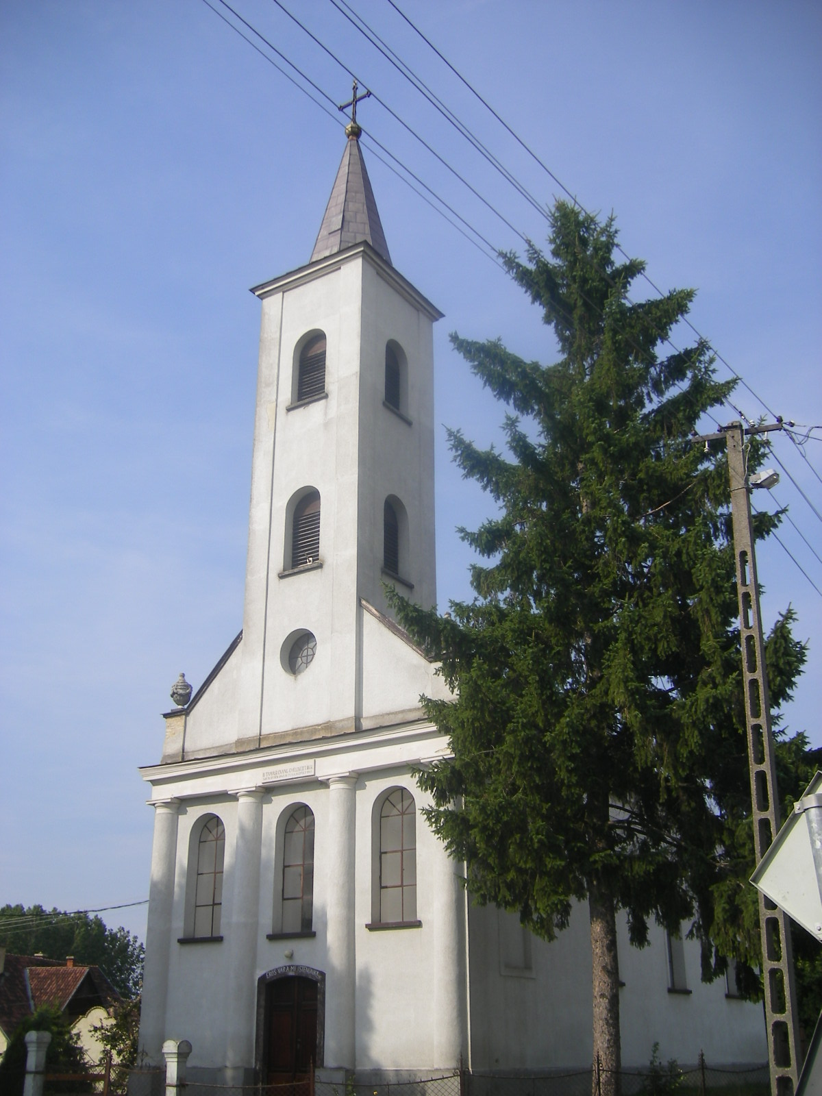 The lutheran church of Bakonytamási, Hungary